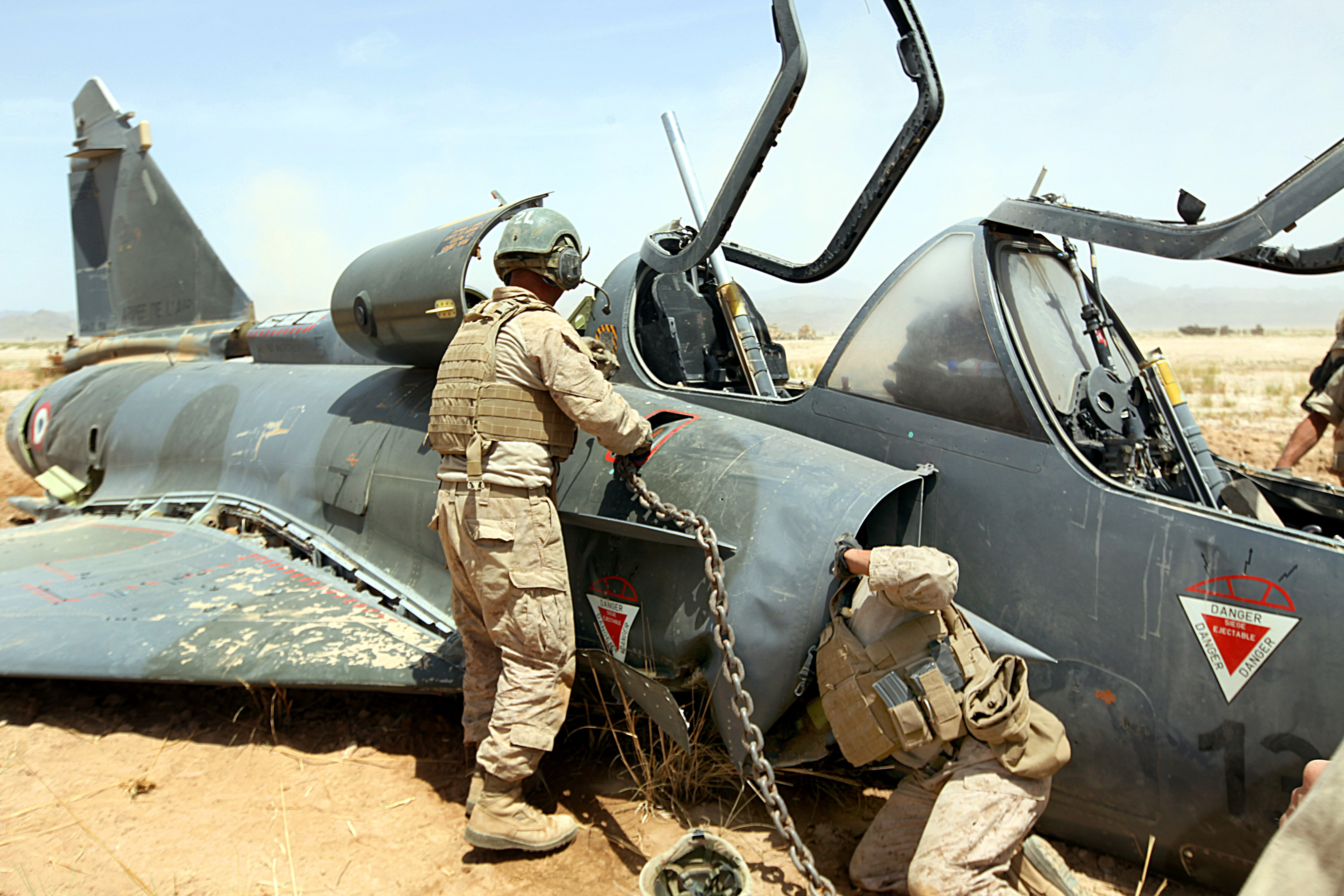 U.S. Marines hook chains to recover a downed French F-2000 Mirage aircraft and an M88 Recovery Vehicle to drag the jet away from the area saturated with fuel prior to recovering it in the Bakwa District, Afghanistan, May 27, 2011. The Marines are assigned to the Combat Logistics Battalion 8, 2nd Marine Logistics Group which took the lead on the mission.